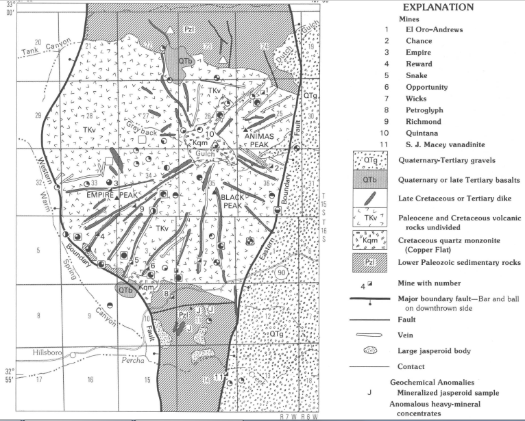 Hillsboro New Mexico geologic map